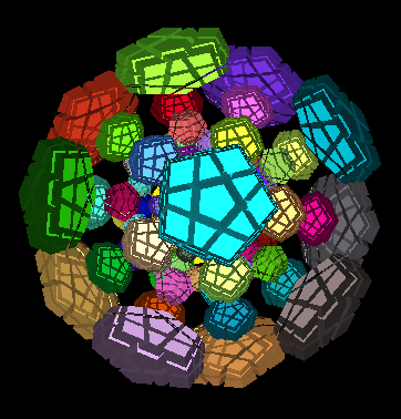 4D virtual 120 cell sequential move puzzle